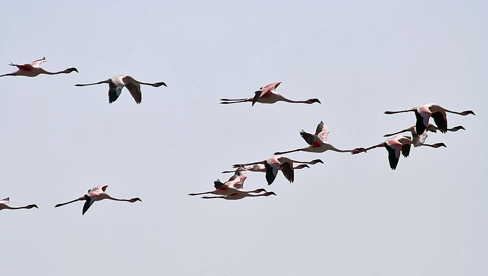 Lesser Flamingo Phoenicopterus minor in Chilika, Orissa, India.